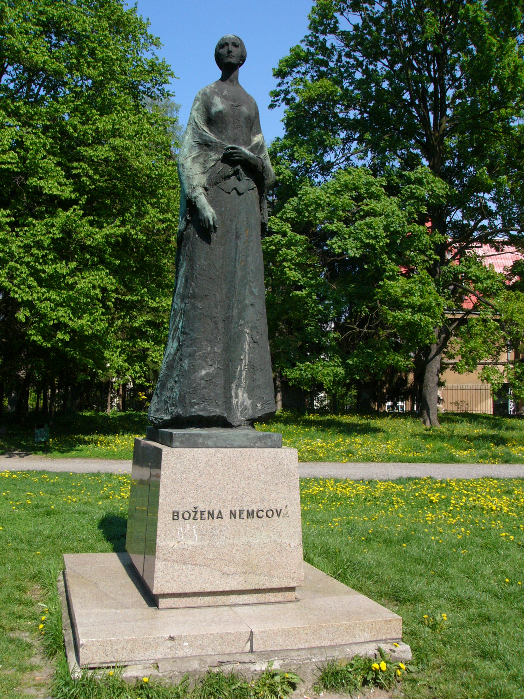 Statue of Božena Němcová (1965) by Vladímír Navrátil (1907 - 1975) in Olomouc (Czech Republic).